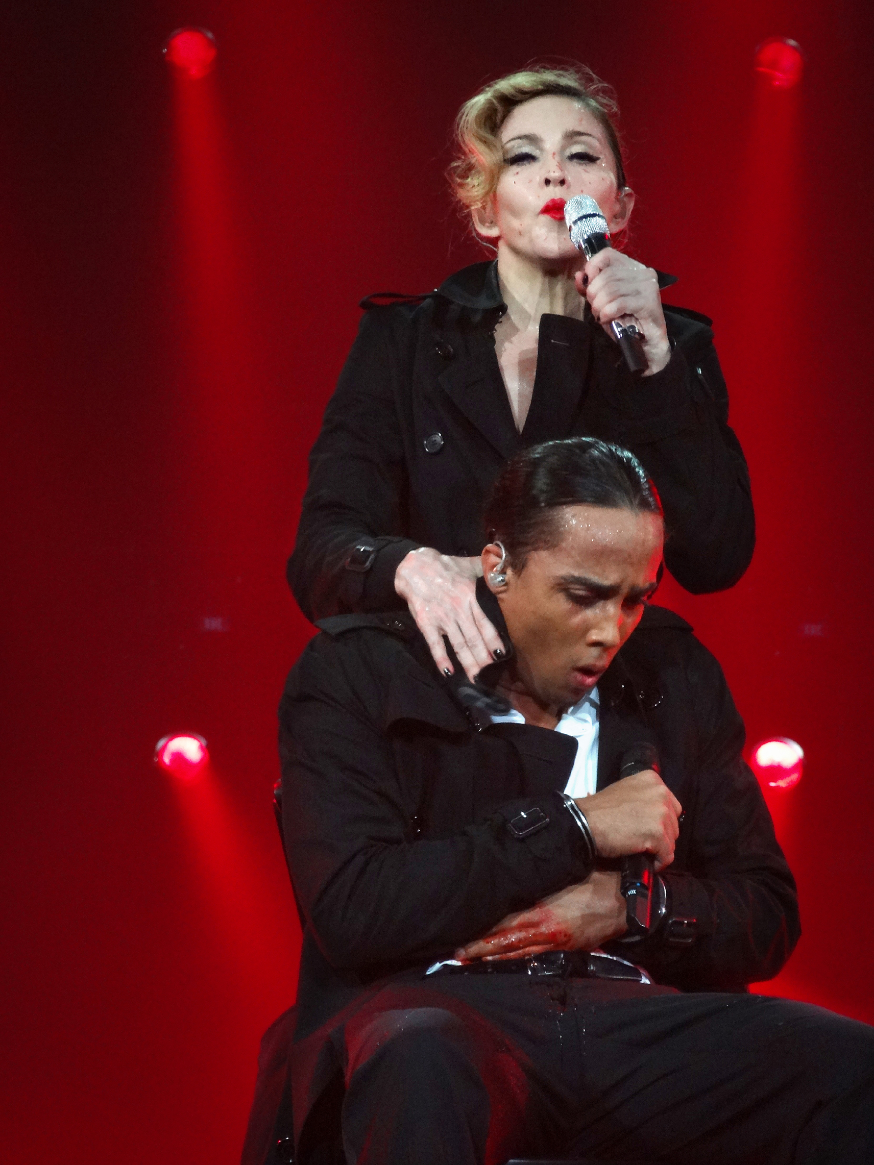 Madonna and dancer Marvin Gofin performing Jane Birkin's and Serge Gainsbourg's "Je t'aime... moi non plus" during her "MDNA à l'Olympia" showcase in Paris, France on July 26, 2012.